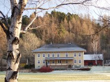 Main building at Vigeland Hovedgård, Vennesla, Norway